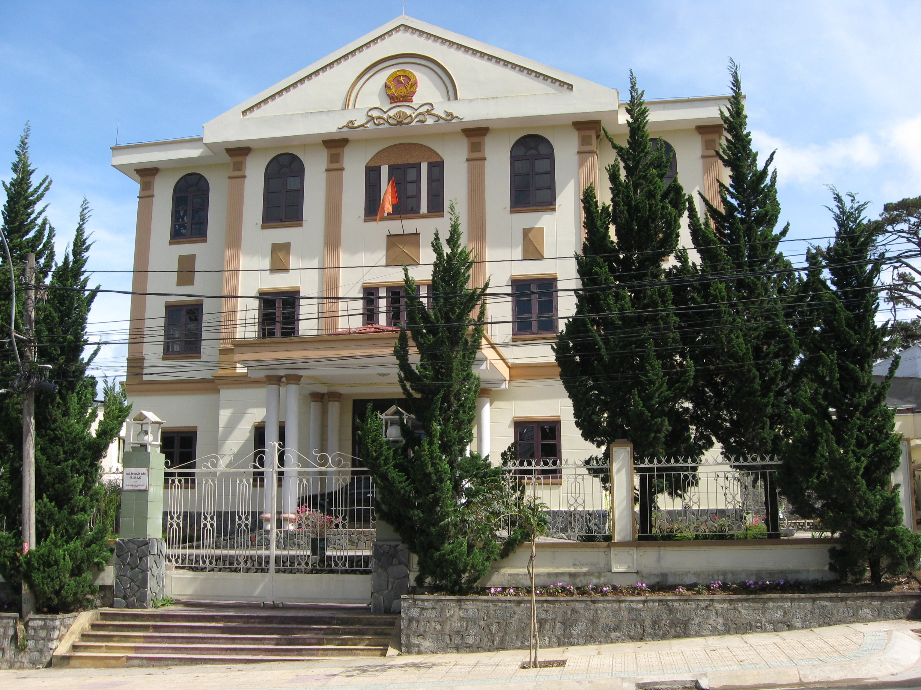 Da Lat People's Court